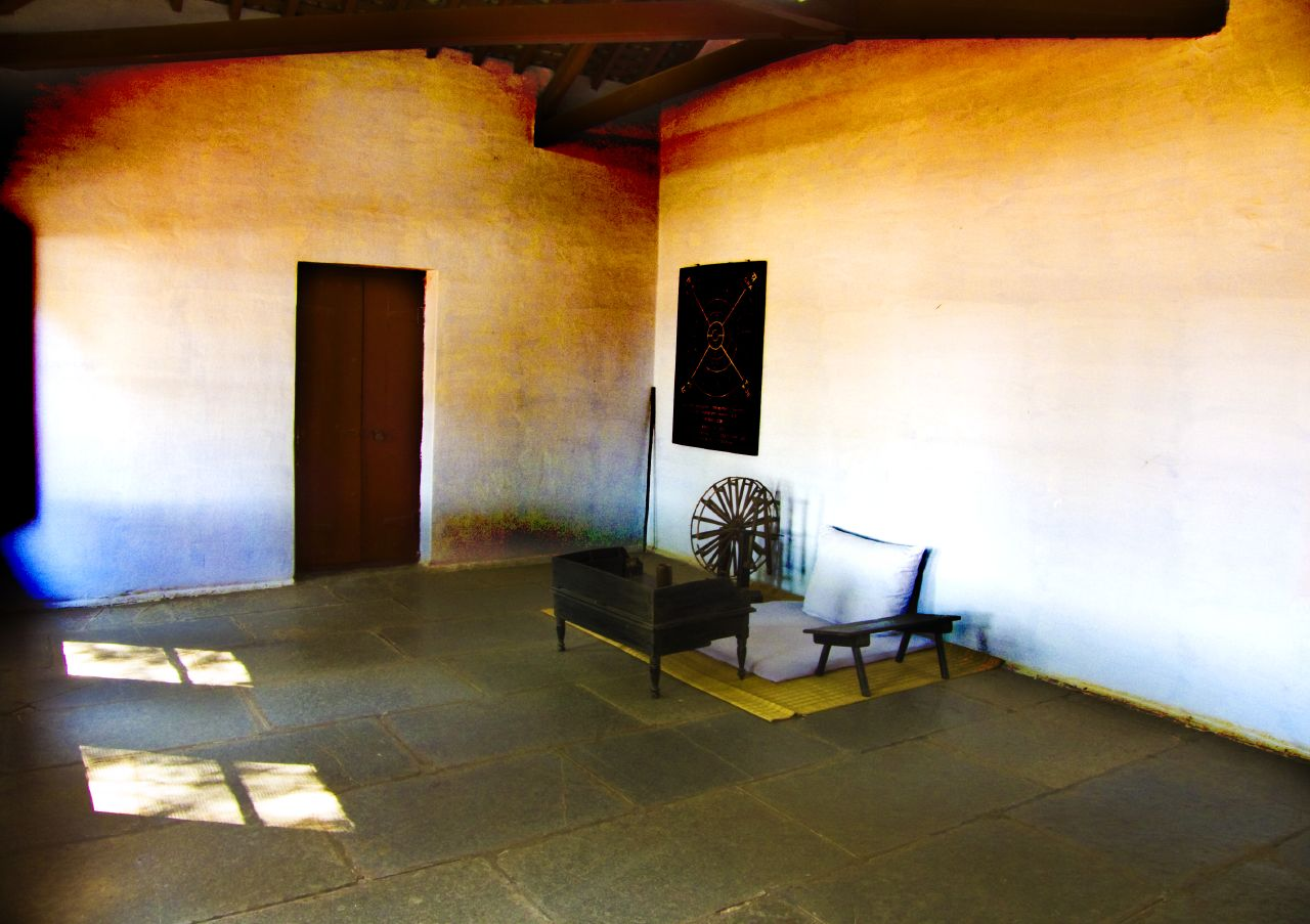 Mahatma Gandhi's room at Sabarmati Ashram.